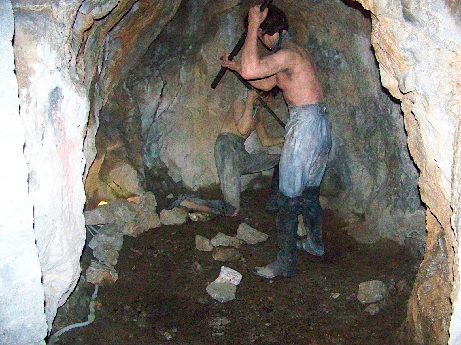 Exhibition showing how tunnelers bored the Great Siege Tunnels in the Rock of Gibraltar.